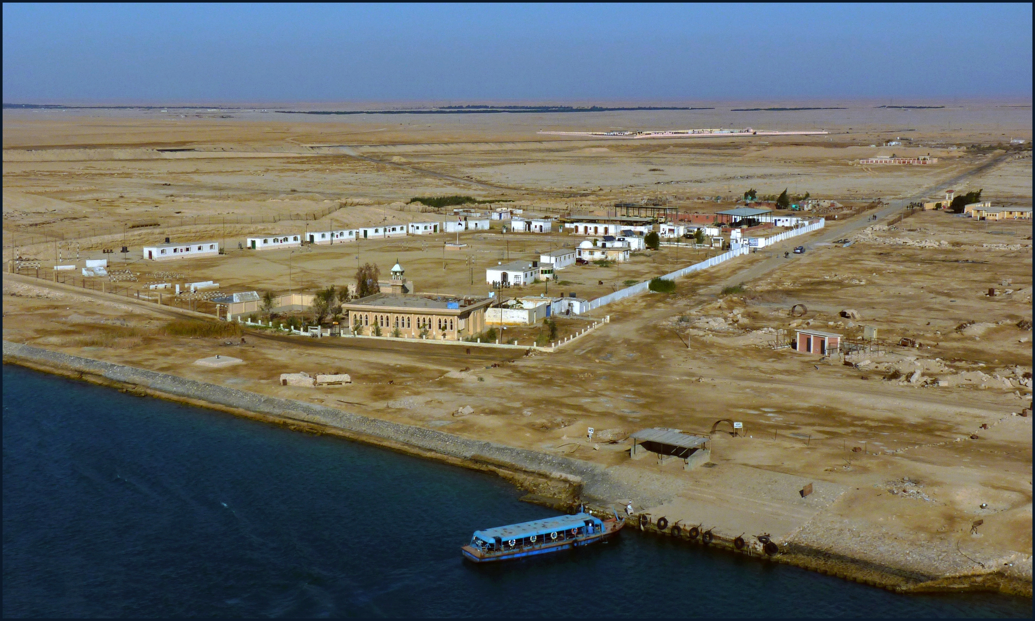 Suez - East side of the channel